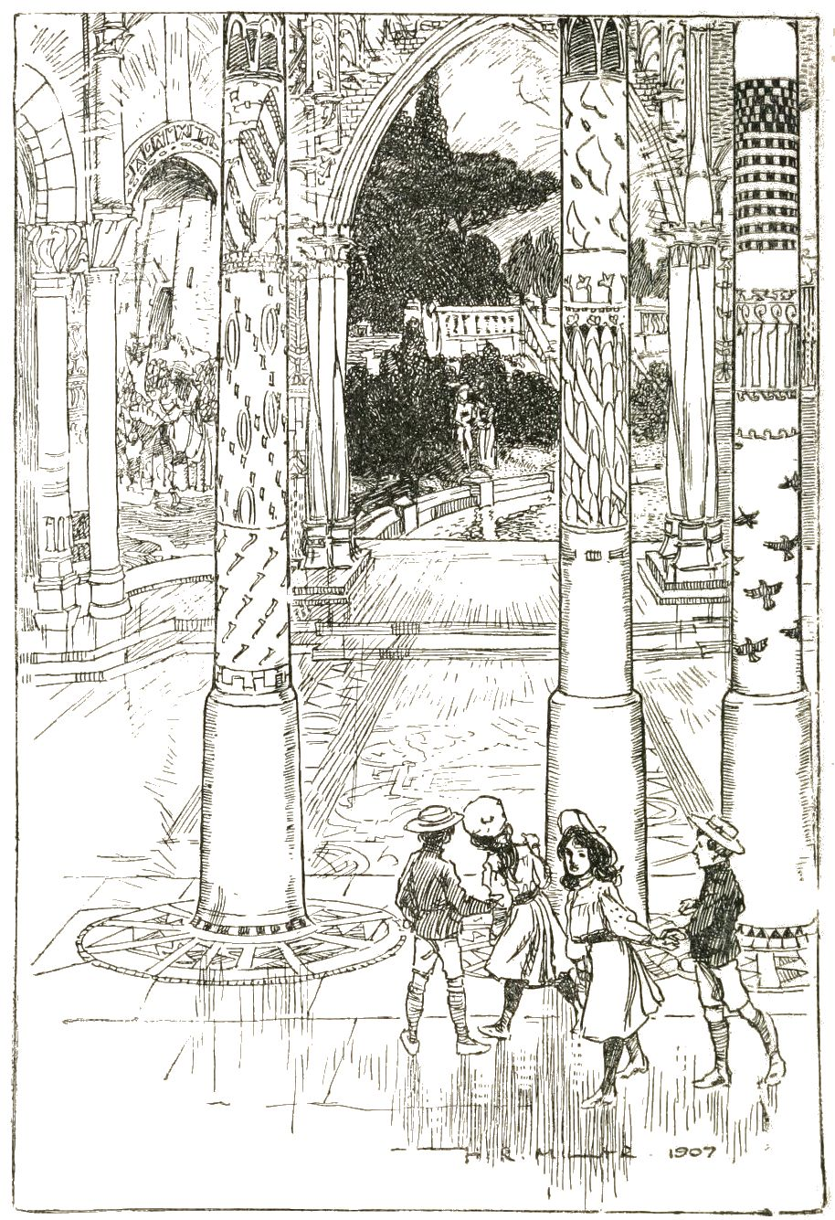 jpg of frontispiece image of File:The Enchanted Castle.djvu